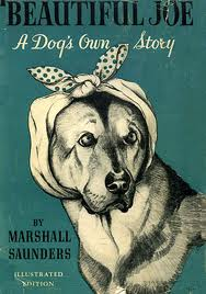 Beautiful Joe. Cover of the 1920 Grosset & Dunlap edition.